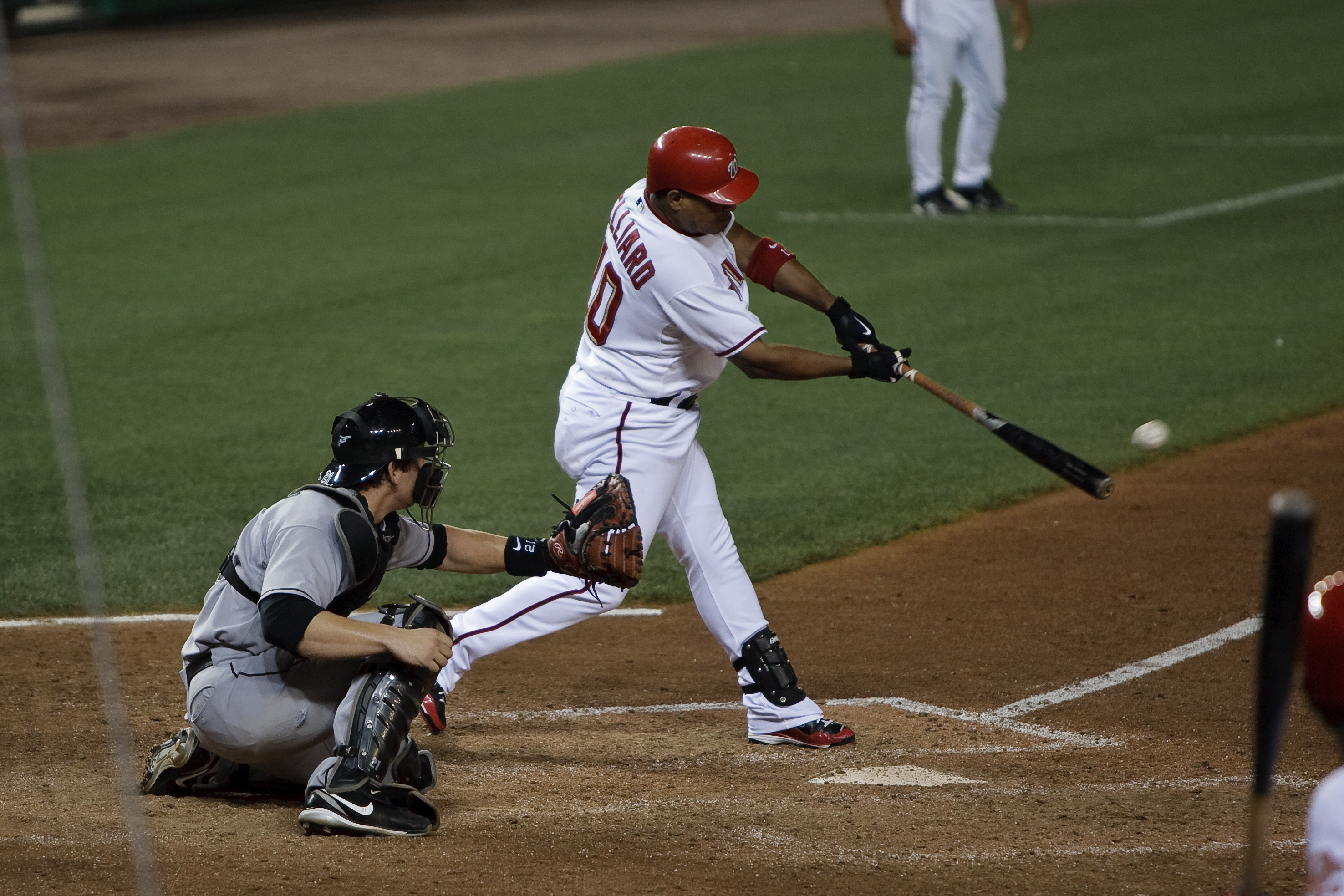 Pinch hitting for Villone, Ronnie Belliard doubles and drives in the Nats first two runs of the night